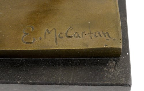 Signature of Edward McCartan